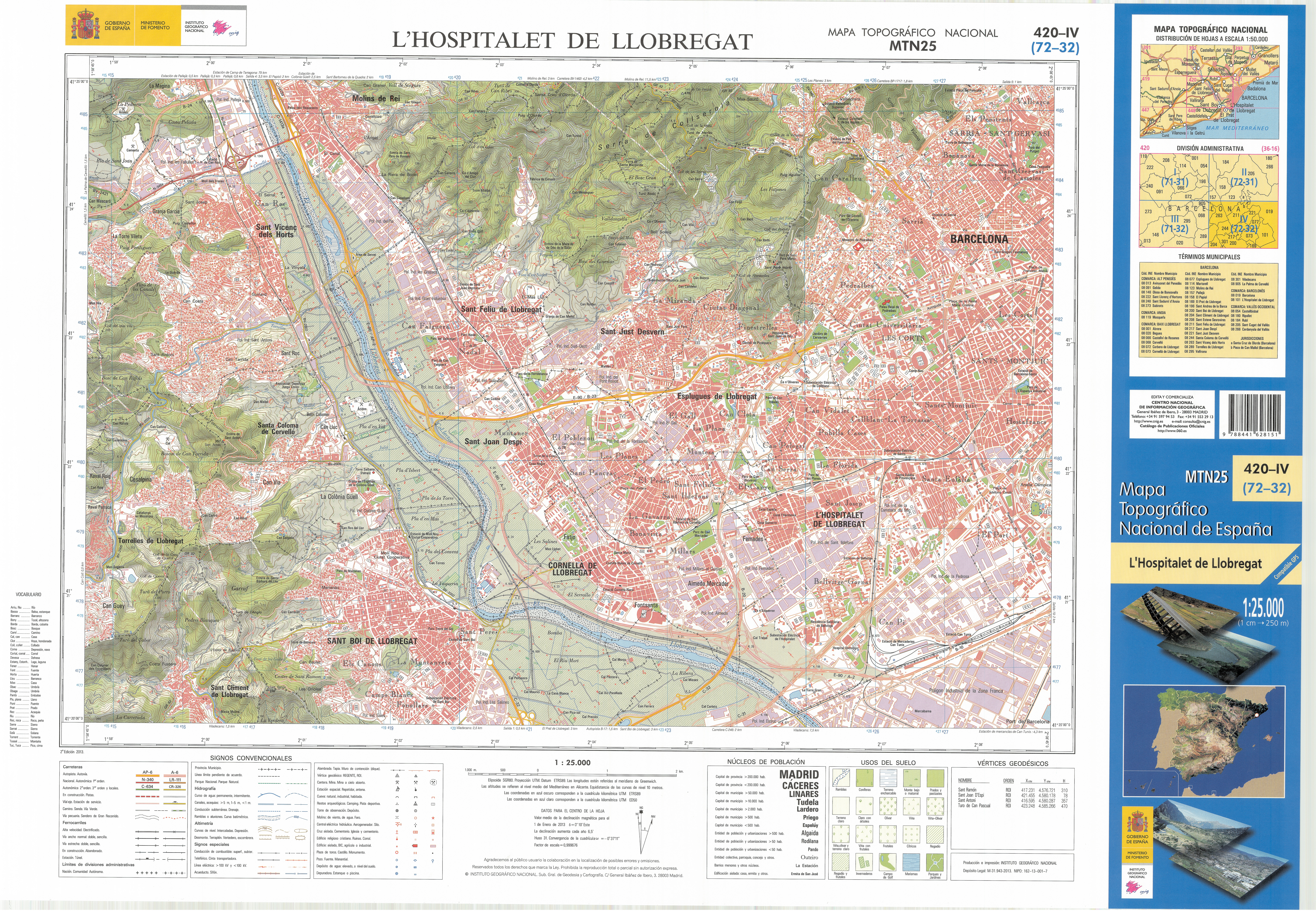 Fragment 0420c4 of the National Topographic Map of Spain in 2013 at a scale of 1:25000 printed and scanned with a resolution of 250 ppi. It shows L Hospitalet de Llobregat.